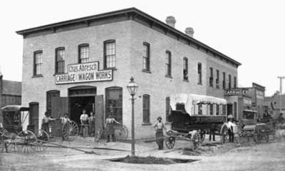 Charles Abresch Co., Milwaukee